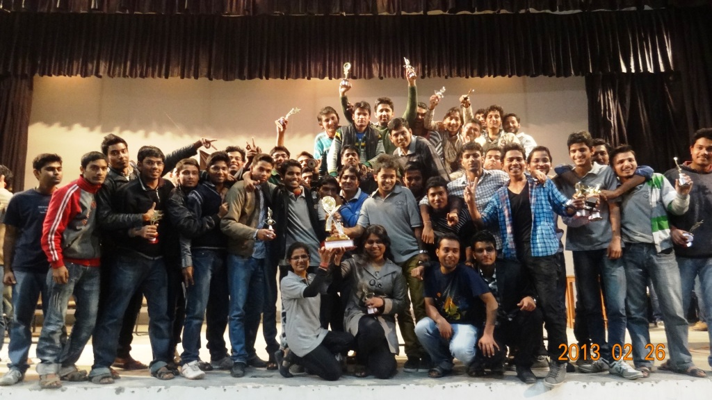 branch pic